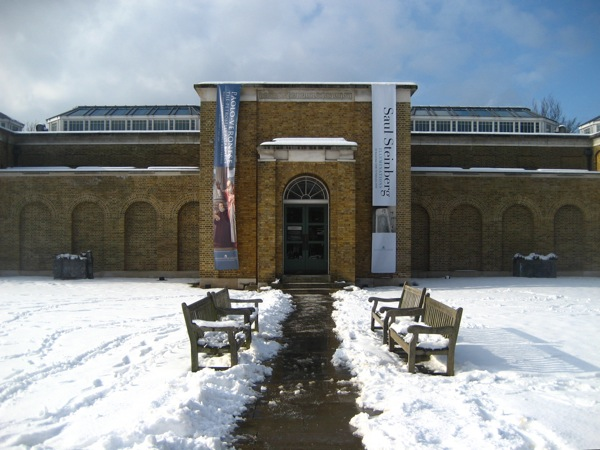 Dulwich picture gallery Flickr data (on upload date): Camera: Canon Digital IXUS 60 Tags: dulwich vilage, east dulwich, london snow License: CC BY 2.0